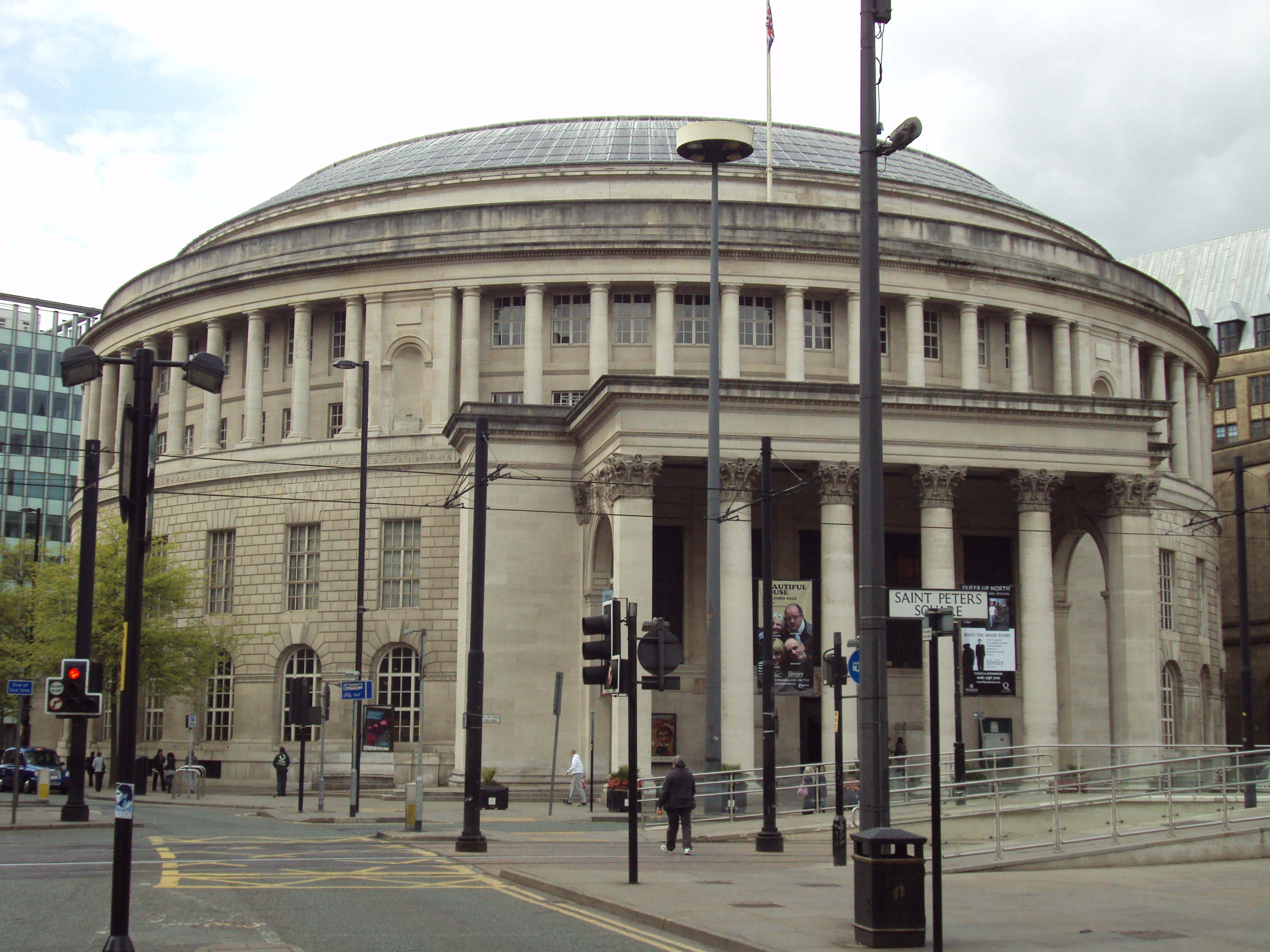 Manchester Central Library, St Peters Square, Manchester, England.